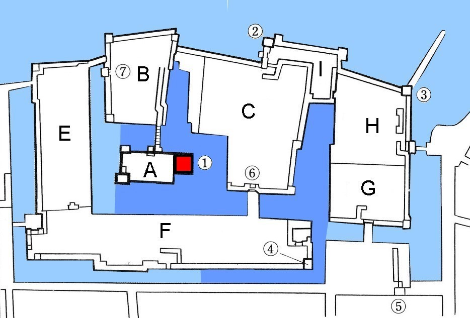 Layout of former Takamatsu Castle